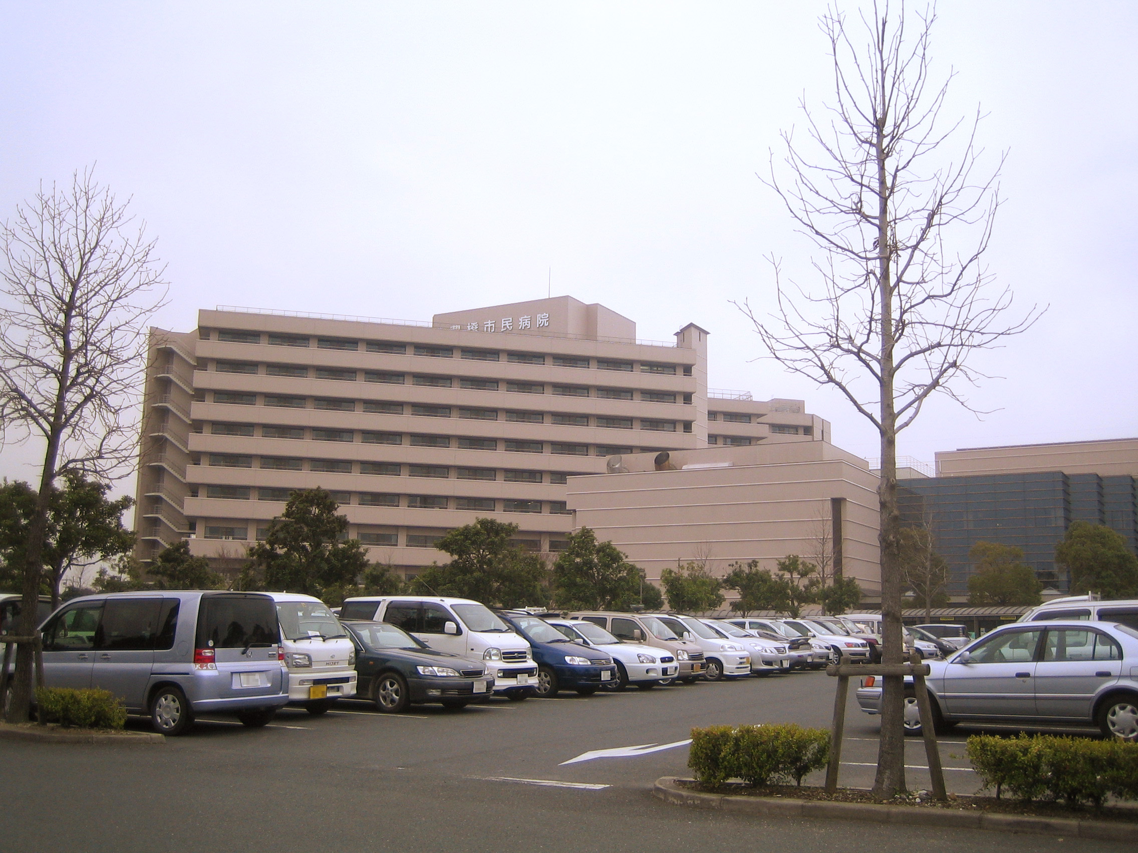 豊橋市民病院。愛知県豊橋市 Toyohashi Municipal Hospital (豊橋市民病院 Toyohashi Shimin Byōin), located in Toyohashi, Aichi, Japan